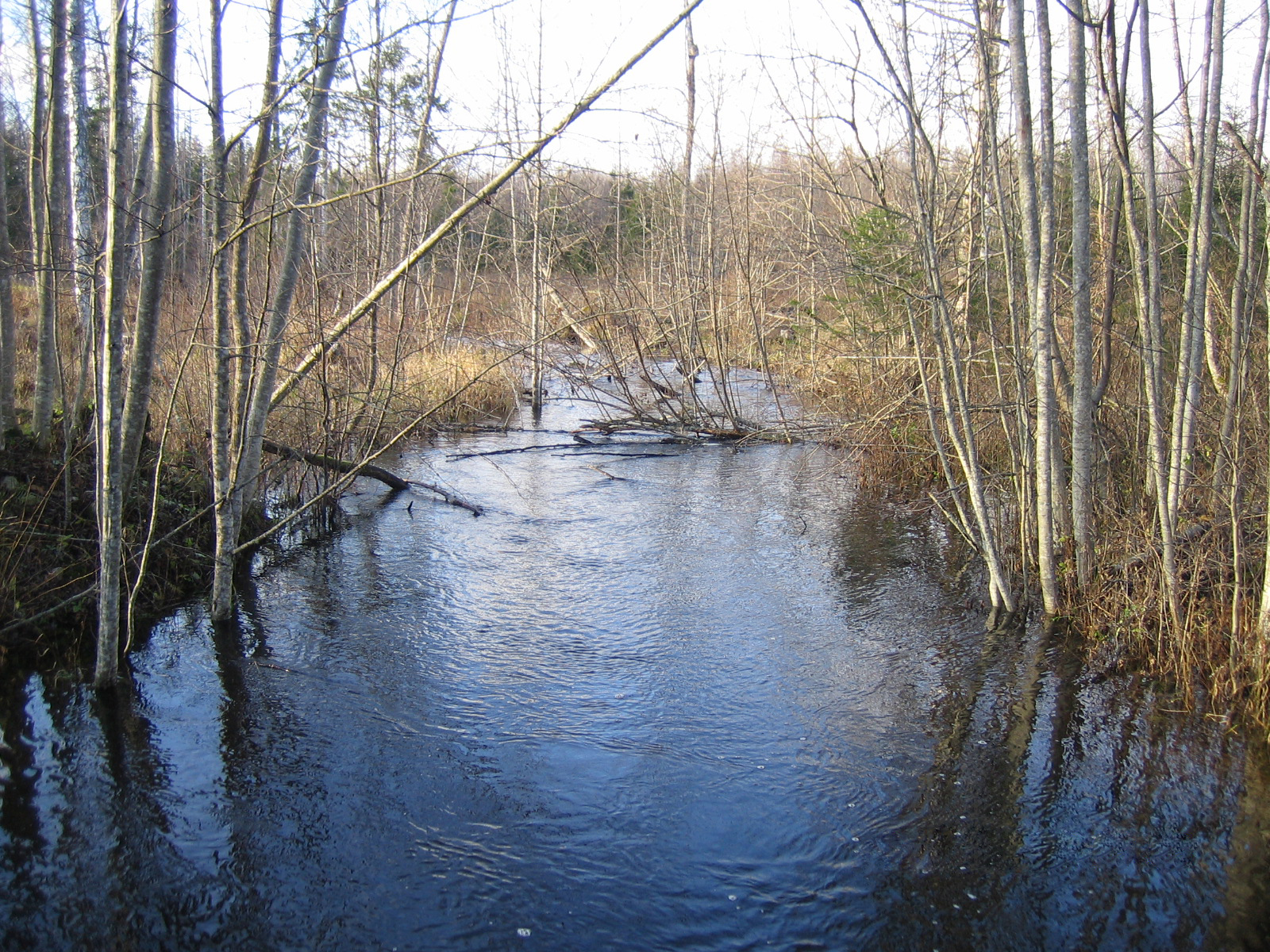 Salla River in Reastvere, ~1 km before flowing to Pedja River